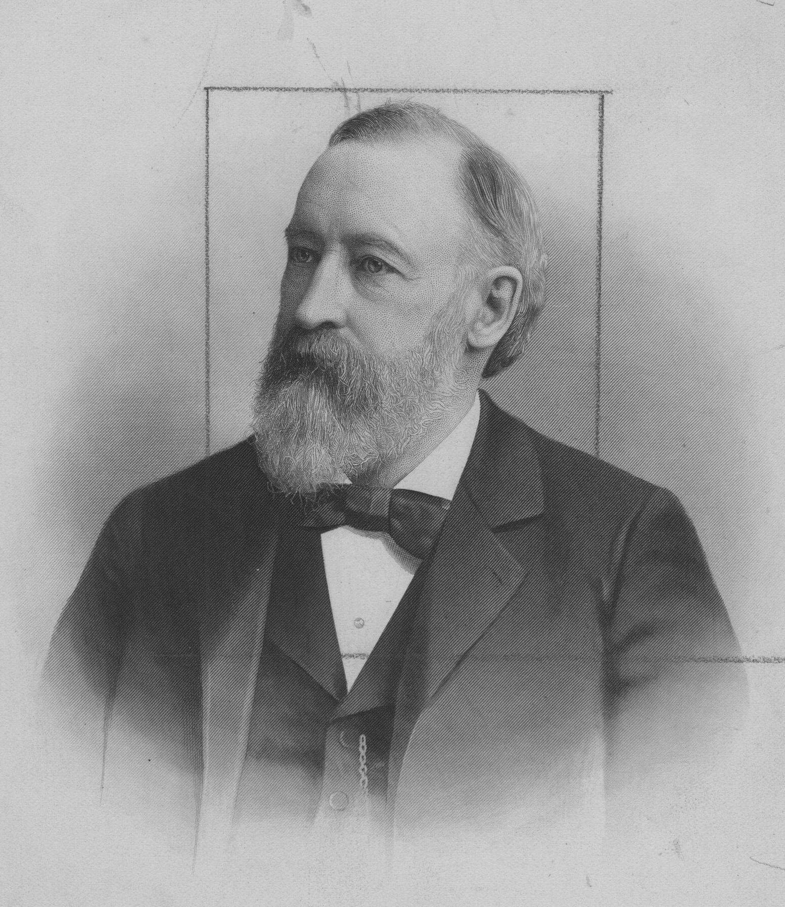 Engraving of Lyman A. Budlong (1829-1909), Chicago farmer and businessman and founder of Budlong Pickle Company, Chicago. Printed in Album of Genealogy and Biography, Cook County, Illinois, 1897